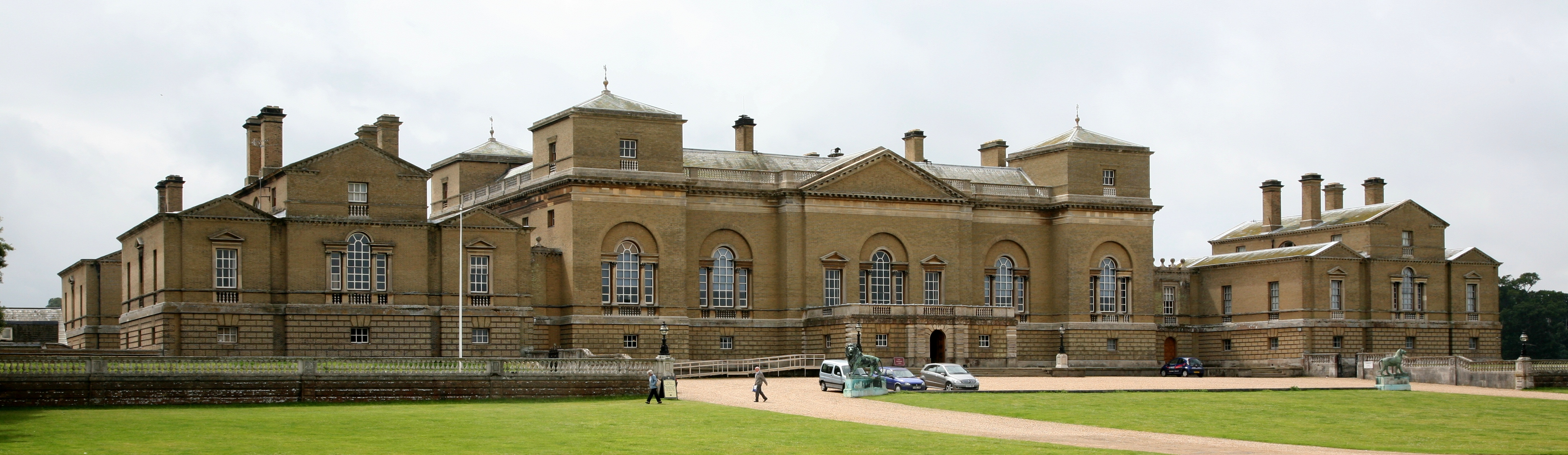 Holkham Hall in Norfolk. Seen from the north